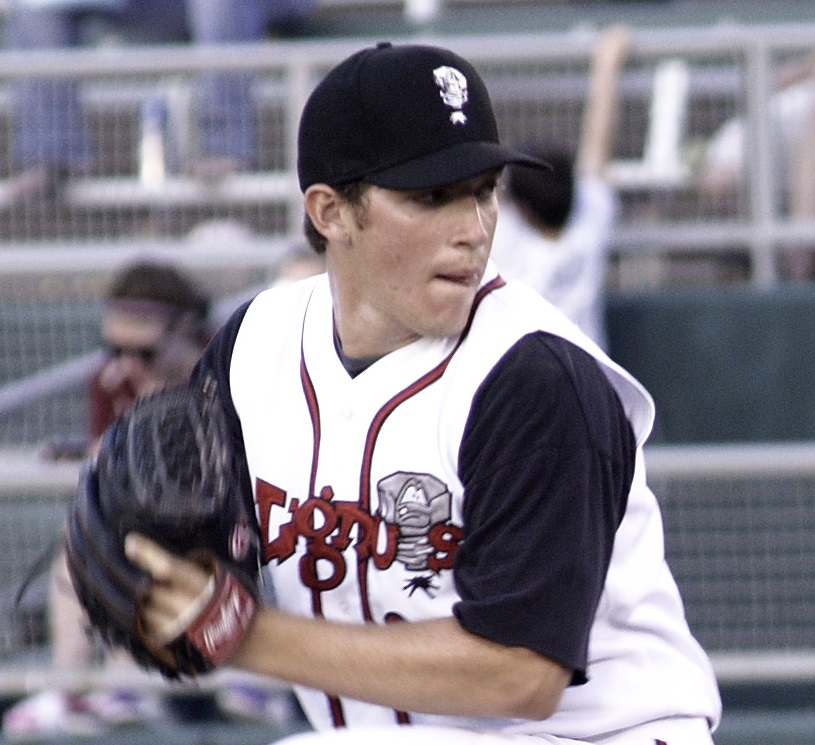 Danny Barnes pitching for the Lansing Lugnuts in 2011